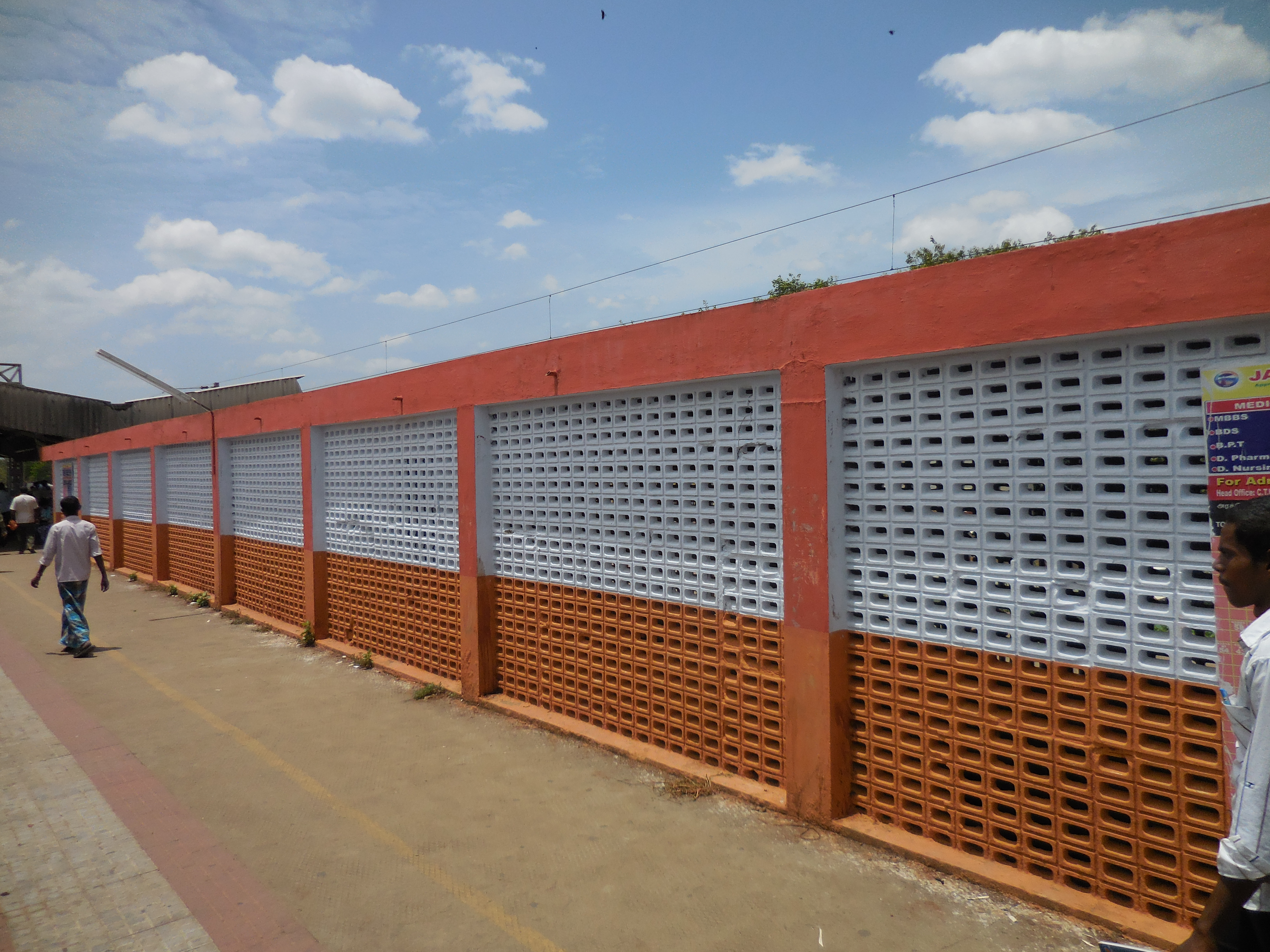 A view of the subway at Vyasarpadi railway station, Chennai, taken on 15 July 2014 at noon.